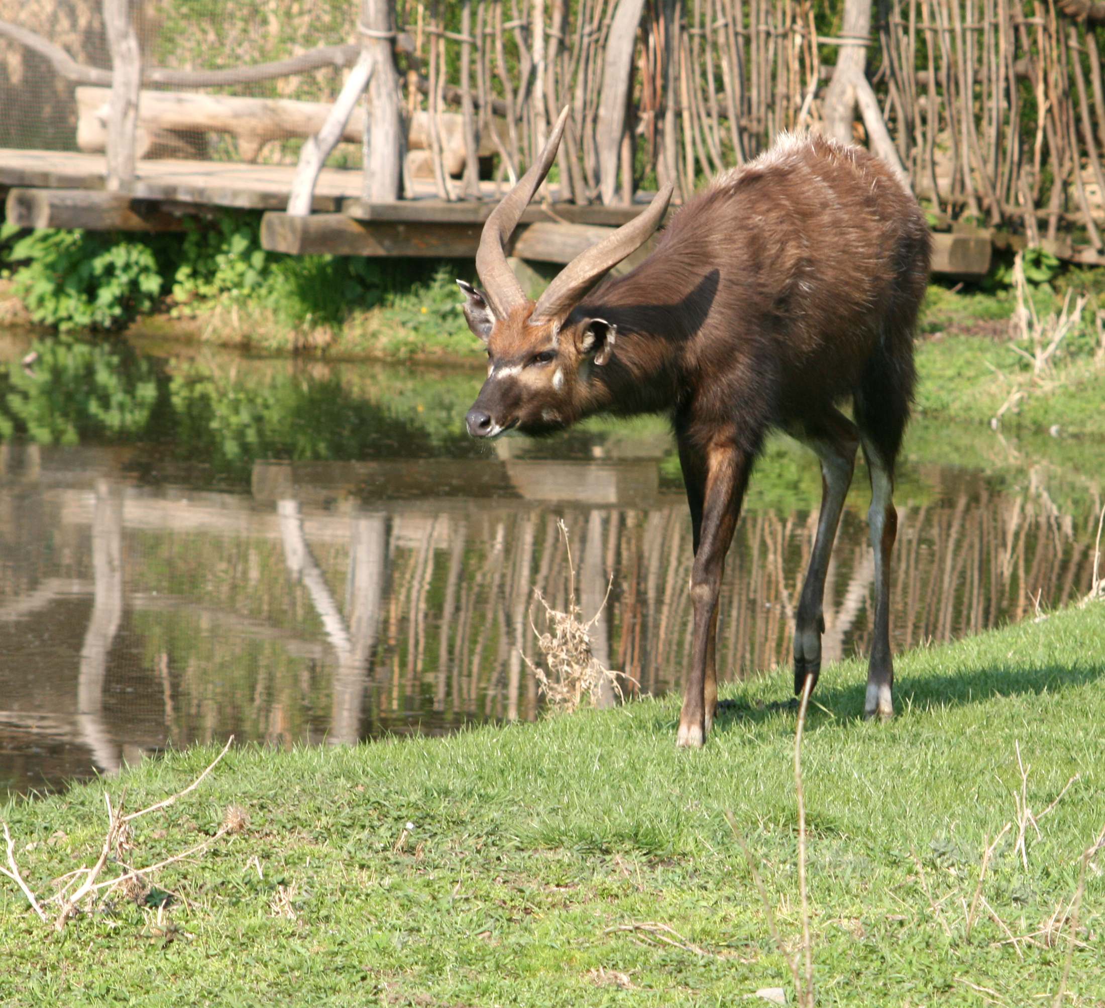 Sitatunga, Tragelaphus spekeii in ZOO Praha, Czech Republic